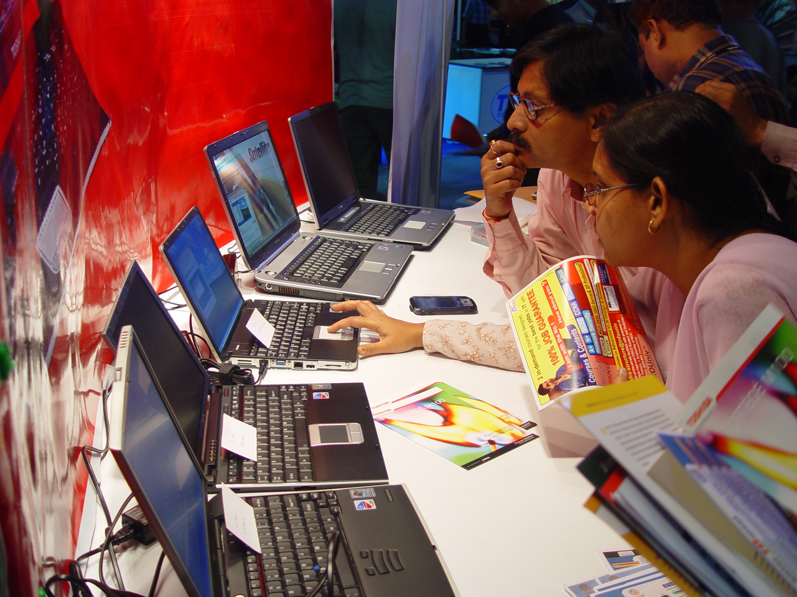 Visitors are checking the Laptops at 'Infocom 2004', the largest Information and Technology fair at Kolkata